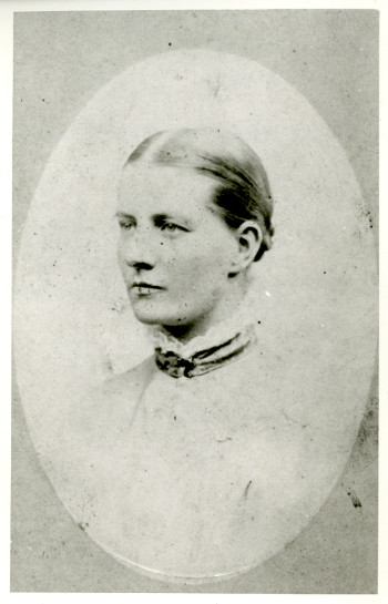 From an old photo held in the State Botanical Collection, Royal Botanic Gardens Melbourne, Victoria